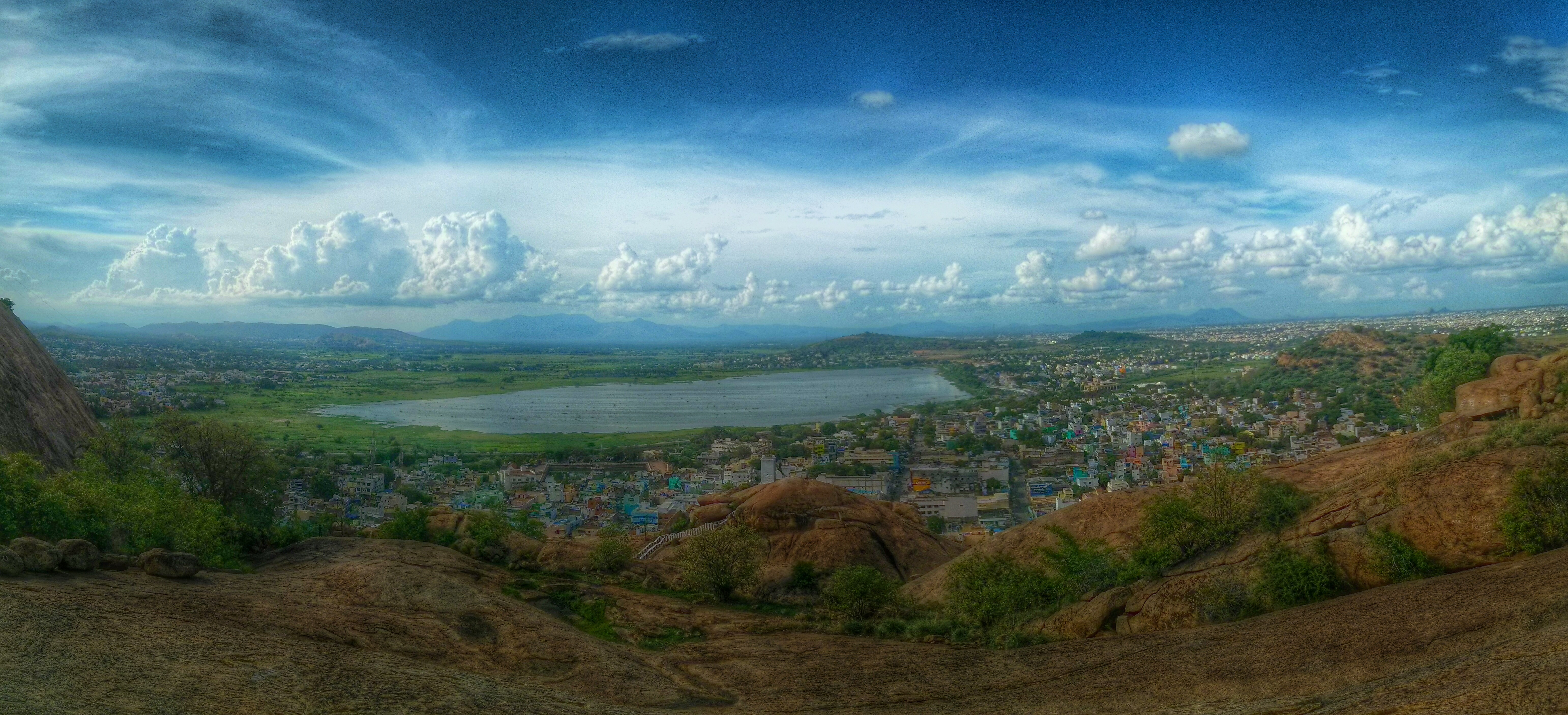 Taken from the hill.